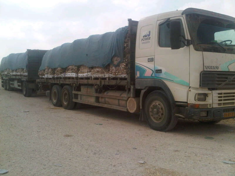 August 21, 2011 Israel allows goods through the Kerem Shalom land crossing.